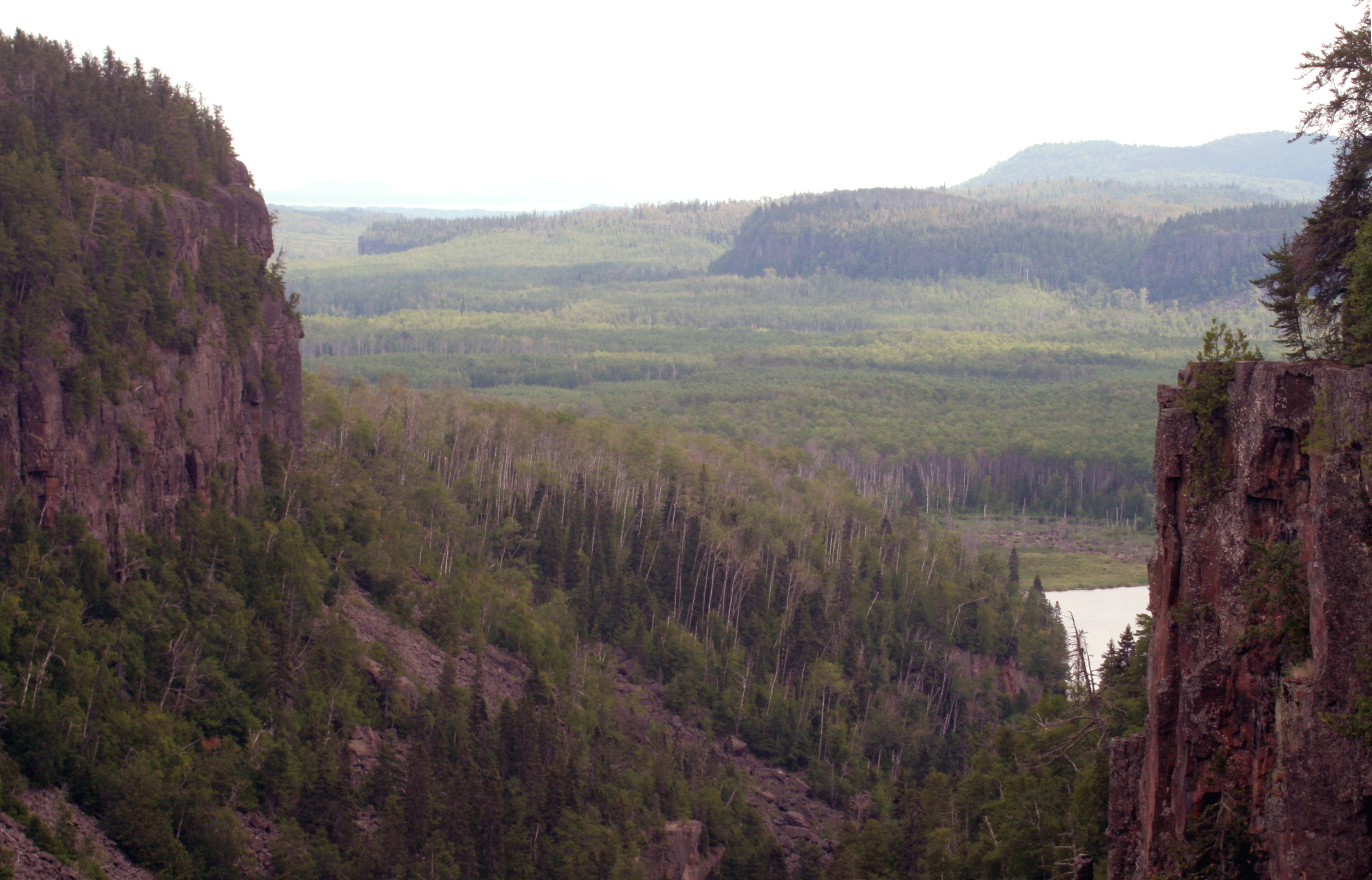 Ouimet Canyon View